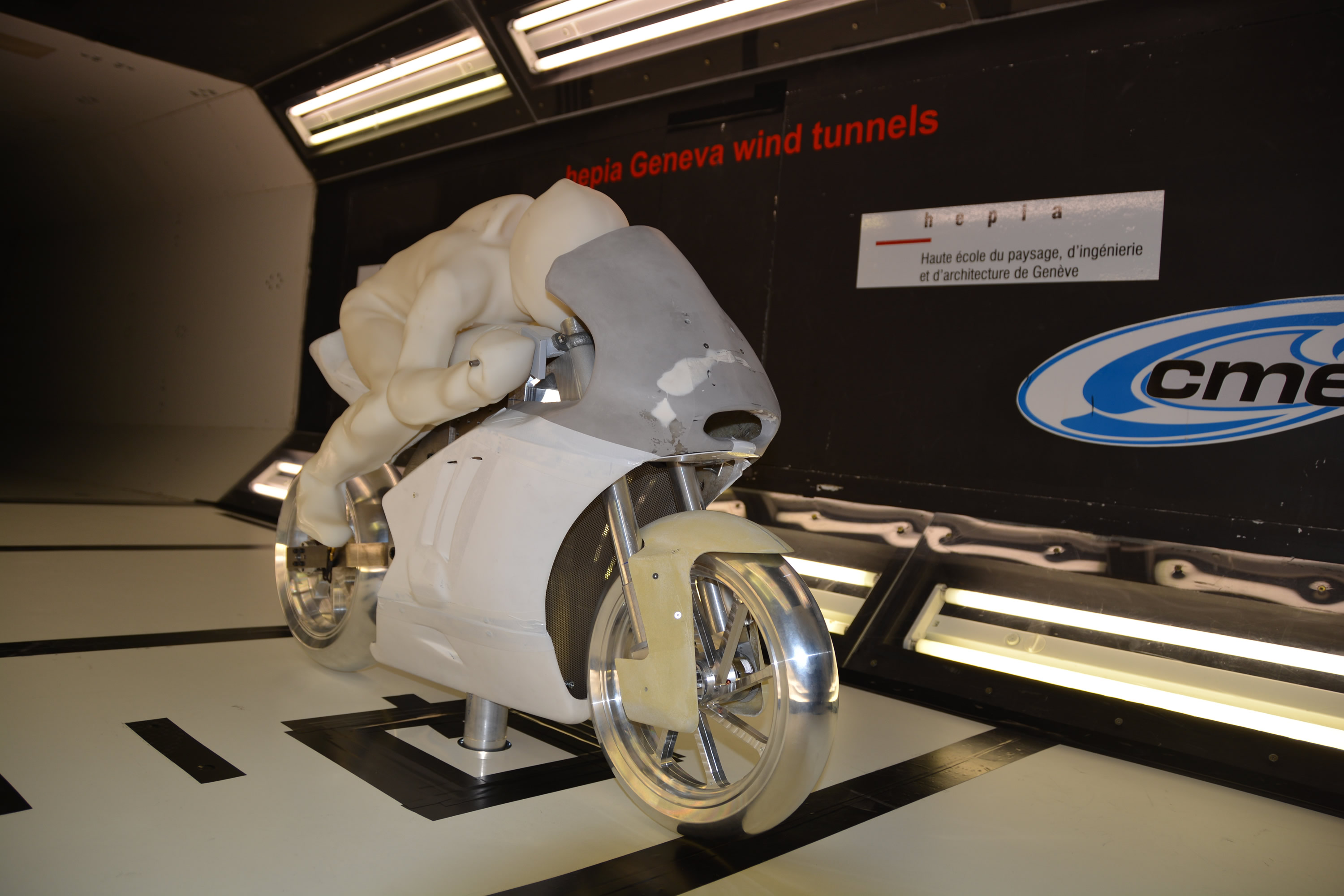 Wind Tunnel Model Moto2